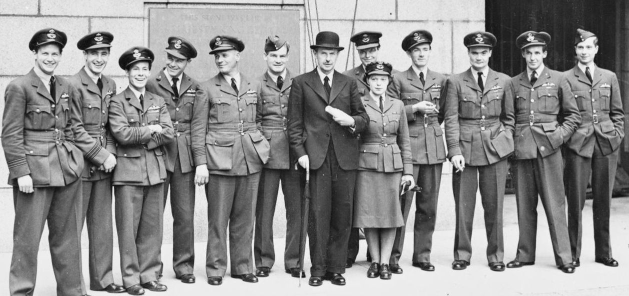 Photograph of Air Chief Marshal Sir Hugh Dowding and an aide with several Battle of Britain fighter pilots (representing "The Few") outside the Air Ministry in London during the celebration of the second anniversary of the RAF's most successful day of the Battle. Left to right as shown: Sqn Ldr A C Bartley DFC Wg Cdr D F B Sheen DFC Wg Cdr I R Gleed DSO DFC Wg Cdr Max Aitken DSO DFC Wg Cdr A G Malan DSO DFC Sqn Ldr A C Deere DFC Air Chief Marshal Sir Hugh Dowding Flt Off E C Henderson Flt Lt R H Hilary Wg Cdr J A Kent DFC AFC Wg Cdr C B F Kingcome Sqn Ldr D H Watkins DFC WO R H Gretton